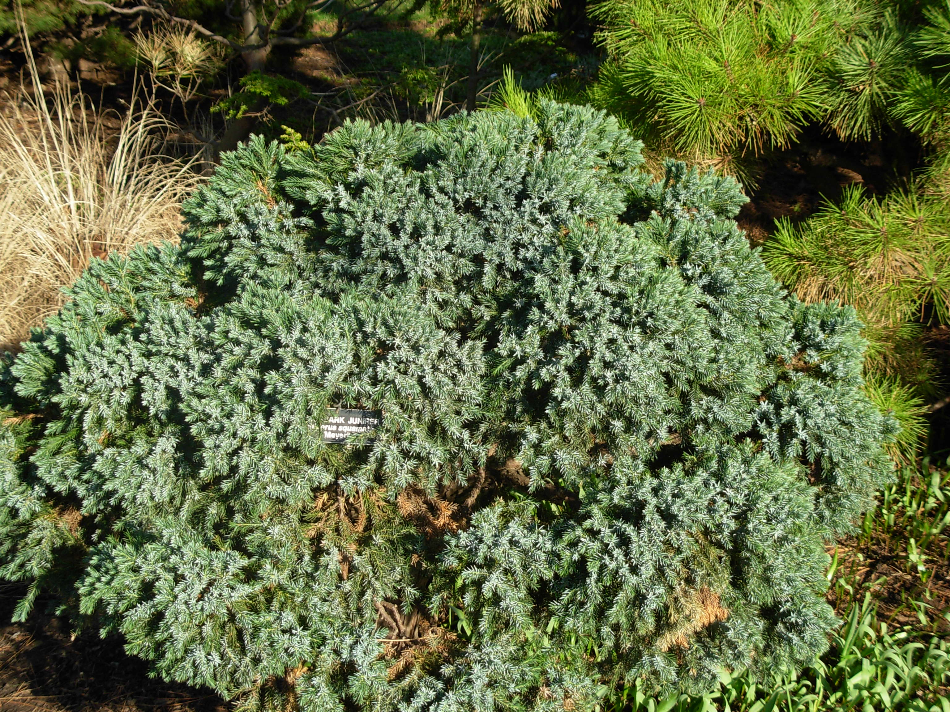 Juniperus squamata in Phipps conservatory, Pittsburgh.